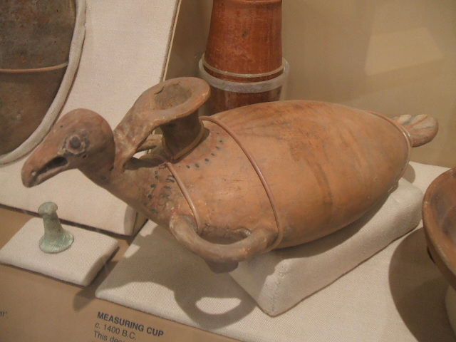 Measuring cup. A ceramic bird shaped vessel from c.1400 BC. This special design was used for festive occasions and may have contained wine. (Information from the visiting Royal Ontario Museum "Egypt: Gift of the Nile" exhibition at the Surrey Museum in Canada)